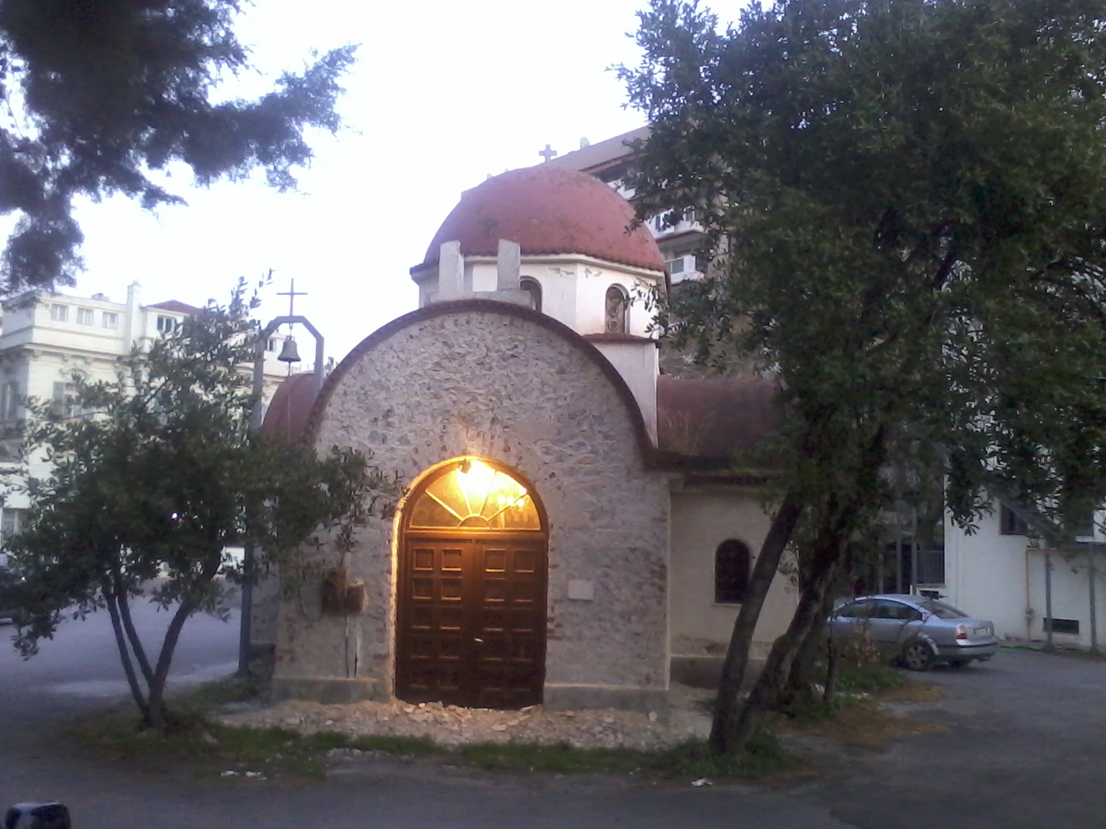 THESSALONIKI-ΦΩΣ ΣΤΗΝ ΣΧΟΛΗ ΤΥΦΛΩΝ-light at the School for the Blind